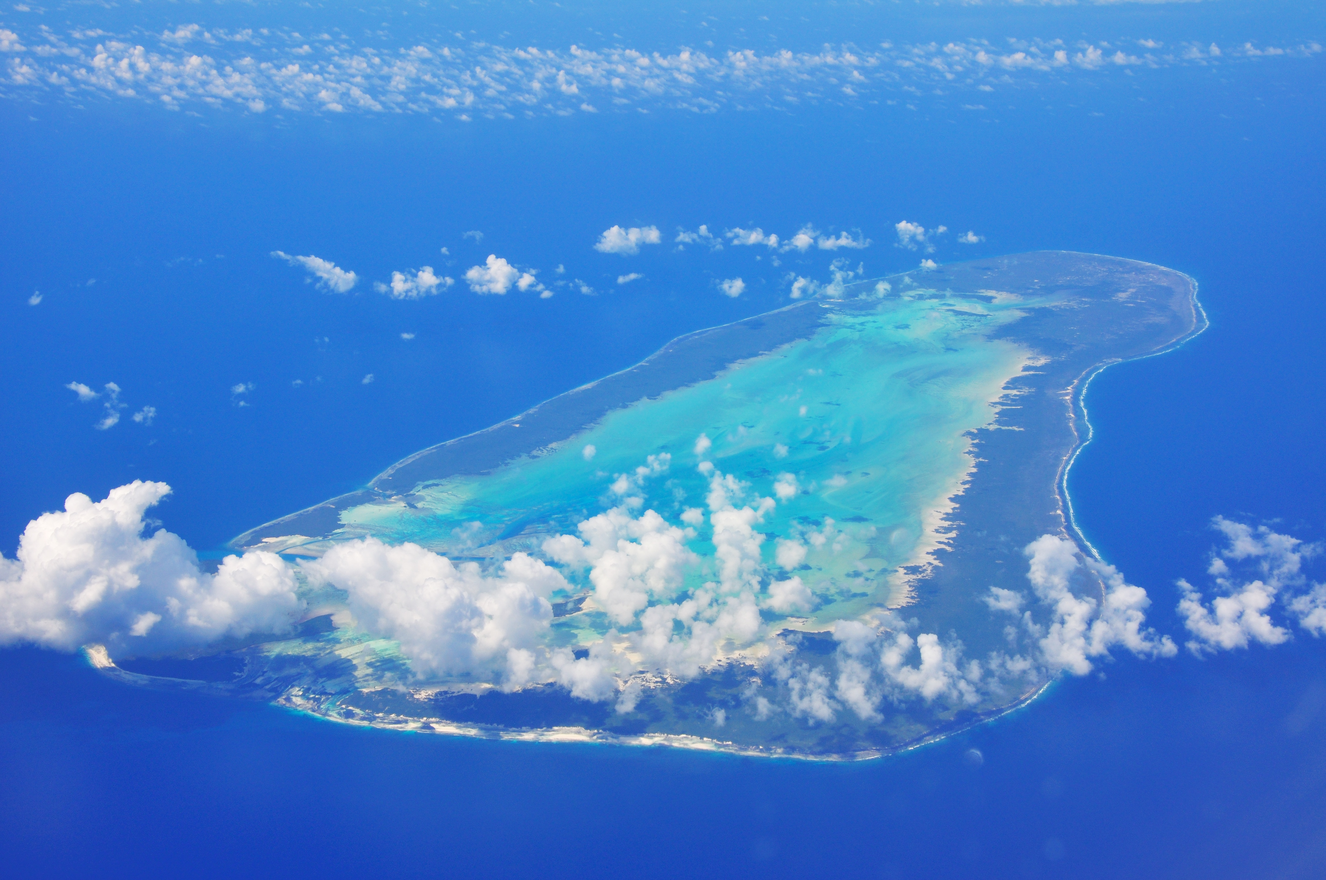 The Aldabra Islands form the largest lagoon in the Indian Ocean. The length is 34 km and the width is 14.5 km. The islands are a UN world heritage and not inhabited.